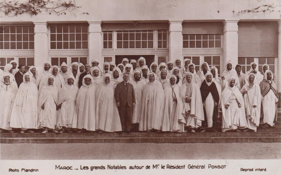 Henri Ponsot, French resident general in Morocco (1933-1936), surrounded by Moroccan tribal and other leaders. During the French protectorate which ended in 1956, the resident general, rather than the near-powerless sultan, was the effective ruler of the country. Contemporary postcard.